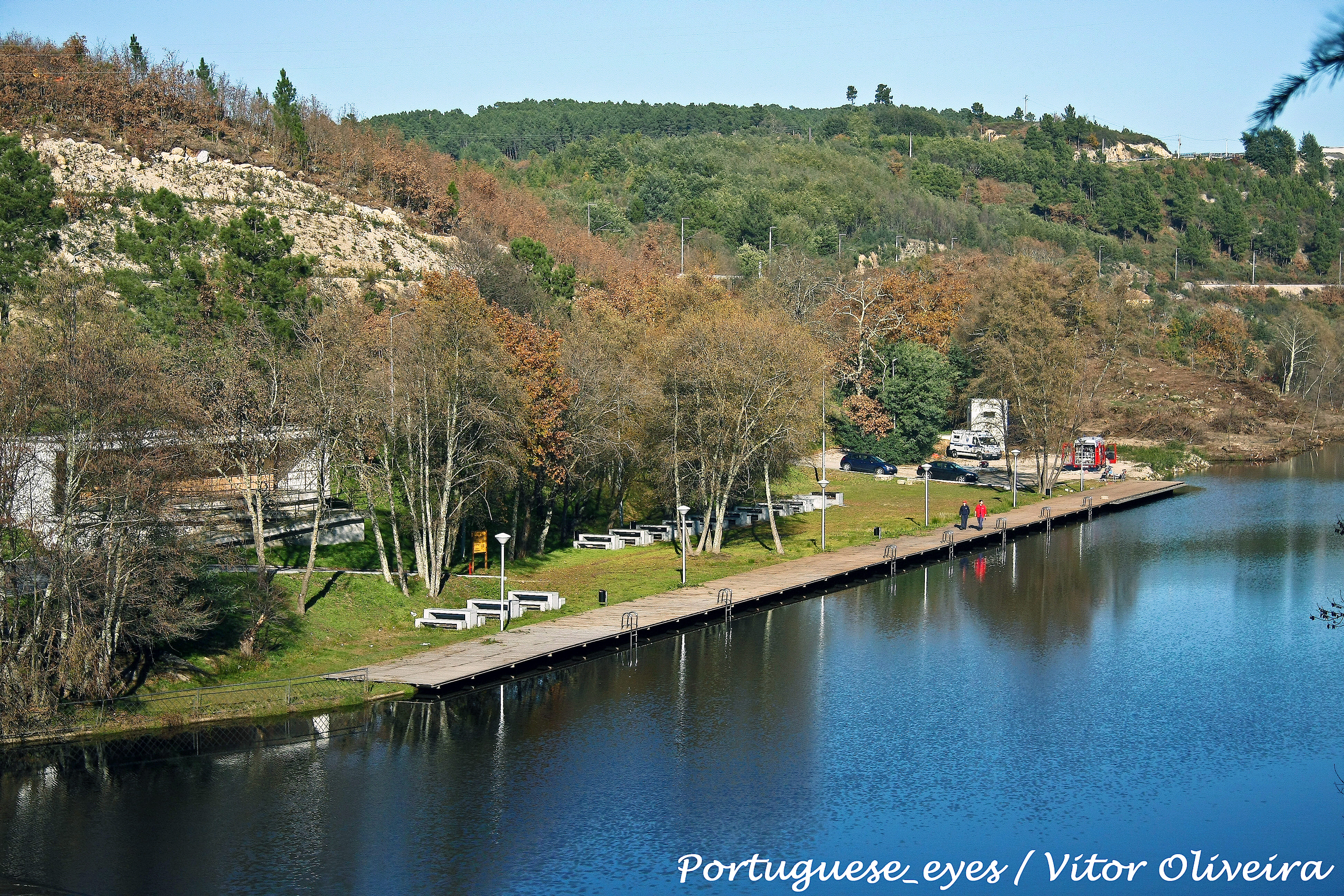 See where this picture was taken. [?]